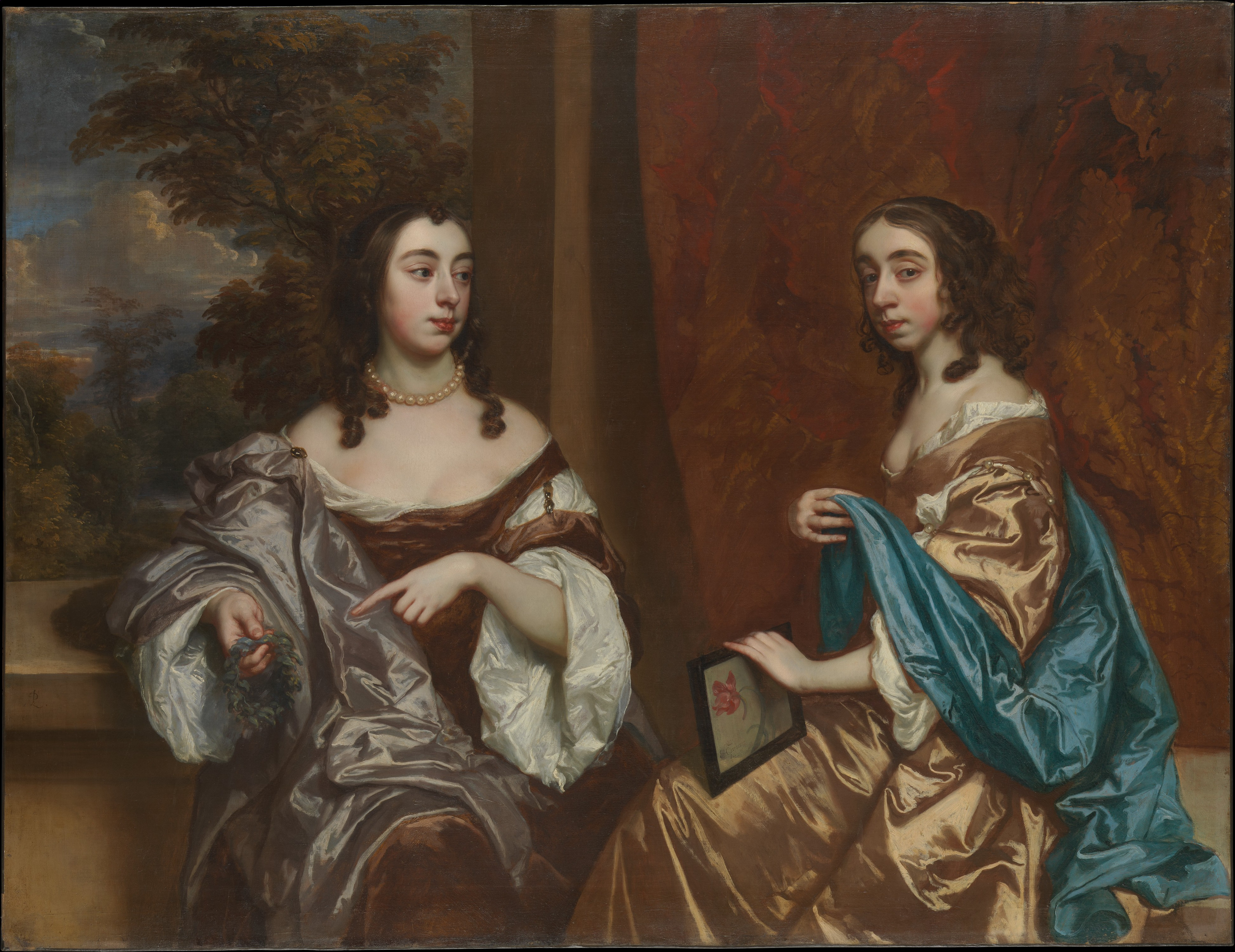 Lely was influenced by Anthony van Dyck and perhaps hoped to succeed him. He was admired and patronized by the Capel family and some of his best work, including this double portrait, was installed at their country house, Cassiobury Park. The colorful and elaborate draperies and the supple handling of the flesh tones are characteristic. The high quality frame is original.